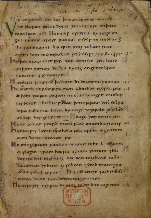 British Library MS Cotton Tiberius B I, f. 3r